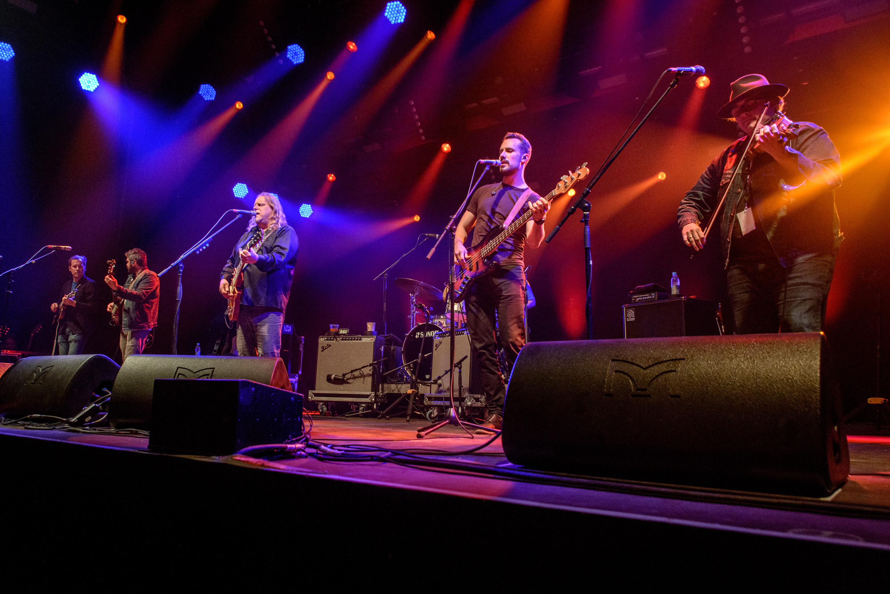 Warren Haynes Live @ Munich 2016